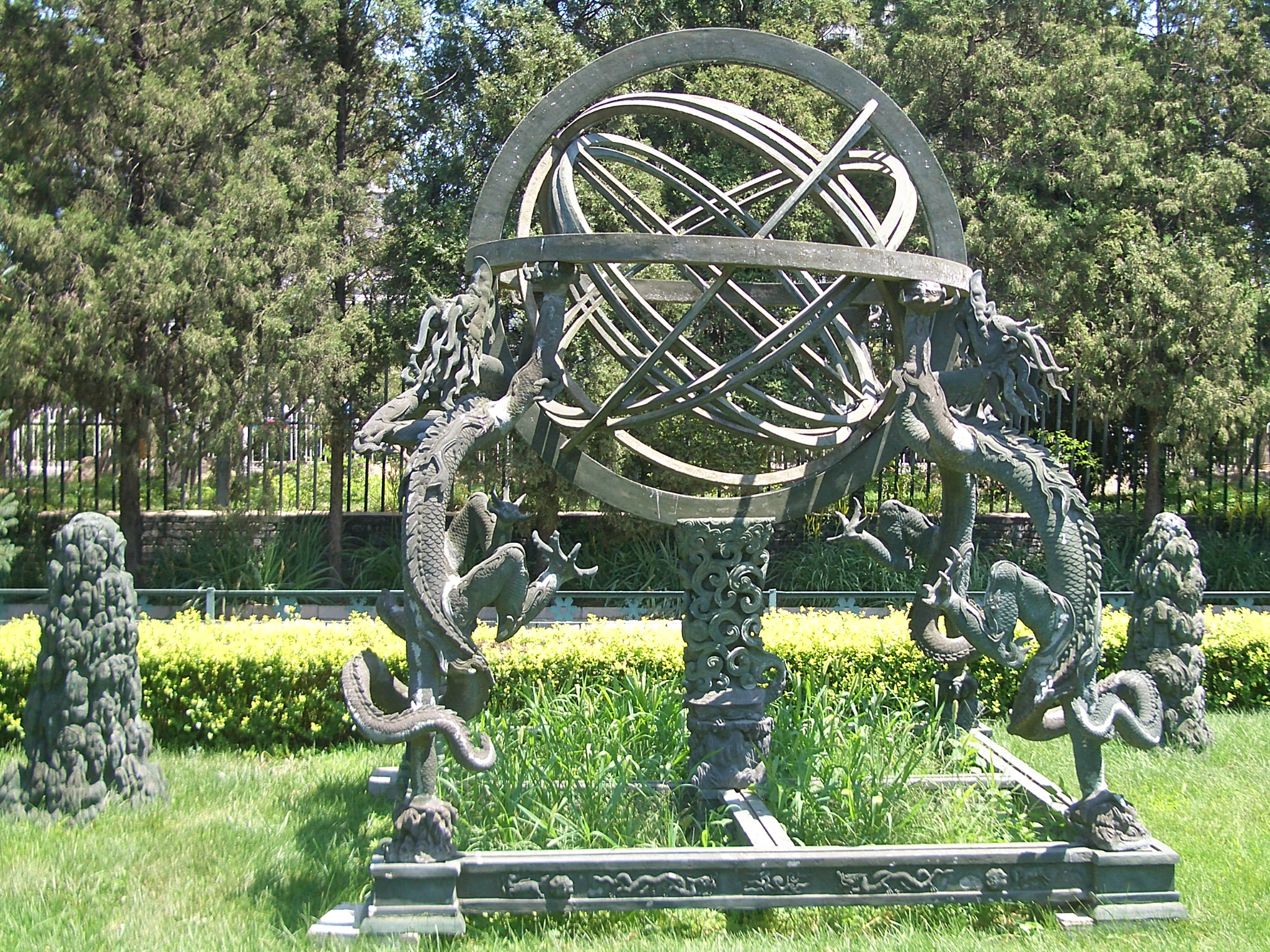 An armillary sphere, made in 1439, at Beijing Ancient Observatory. A round sphere above a square base (天圆地方!), it stands on a tortoise (reminding one, perhaps, of the Ao (鰲) turtle whose legs hold the sky in Nüwa's story!), and is supported from the 4 corners by dragons.